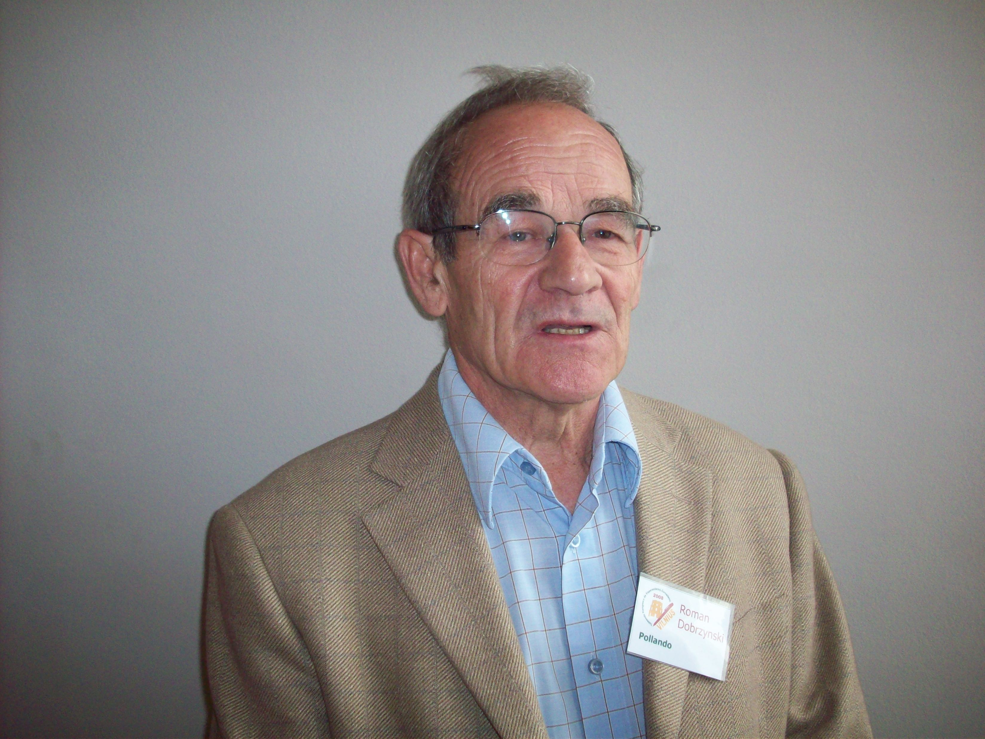 Famous Polish esperantist. Picture taken during World Esperanto Journalist meeting in Vilnius.